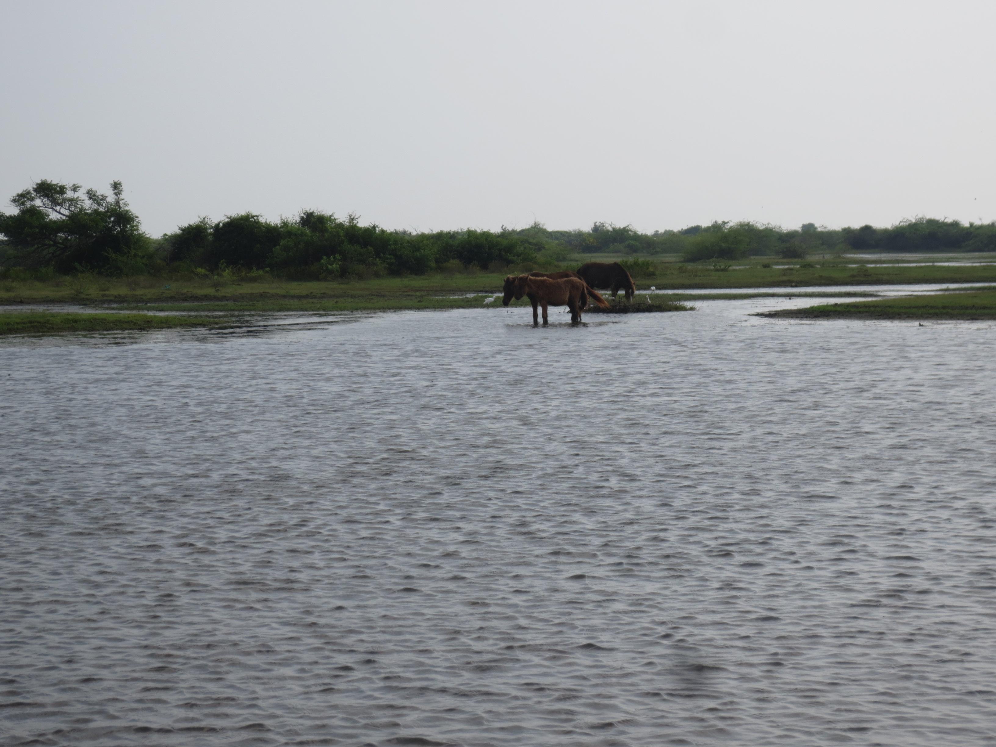 wild life